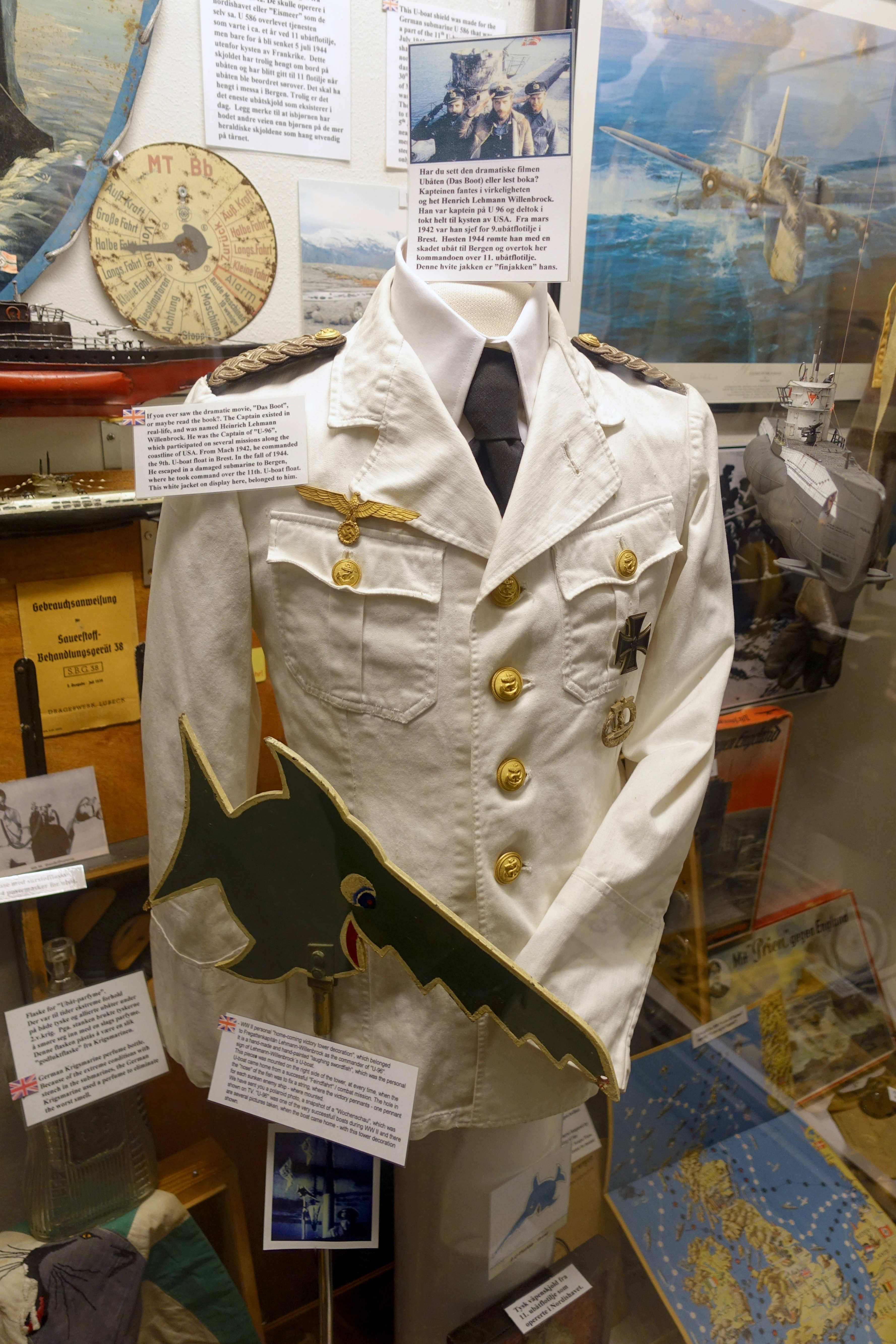 Uniforms, items, photos from the Kriegsmarine, the naval forces of Nazi Germany: officer's white summer tunic of Fregattenkapitän Heinrich Lehmann-Willenbrock (submarine commander of the U-96 in World War II), laughing swordfish/sawfish emblem (homecoming sign), engine order telegraph, board game, etc. Photo taken on 8 May 2019 at Lofoten War Memorial Museum (Lofoten Krigsminnemuseum) in Svolvær, Norway. The museum exhibits uniforms, militaria, memorabilia, smaller items, etc. from World War II and German-occupied Norway 1940–1945.